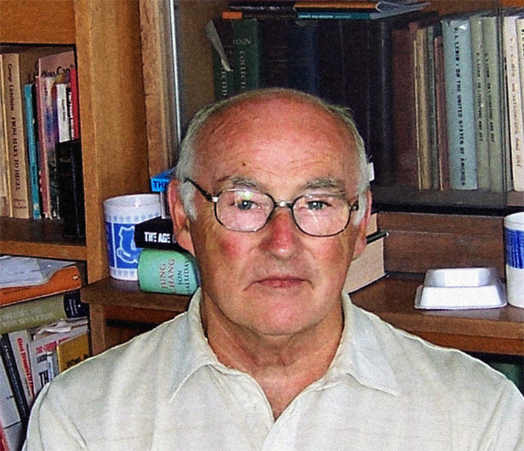 Peter Taaffe, general secretary of the Socialist Party of England and Wales, September 2006, in his office in London, pauses during an interview speaking against the War on Iraq, shortly after the Stop the War Coalition demonstration outside Labour Party conference.